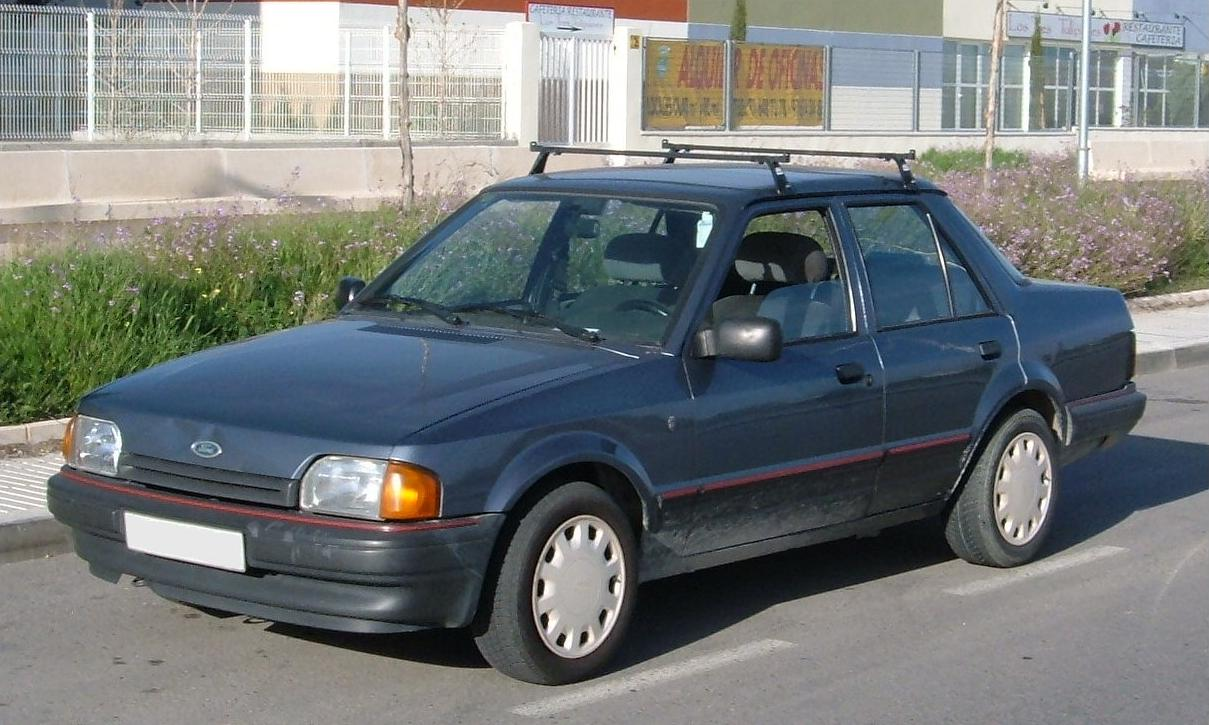 Ford Orion 1986 front